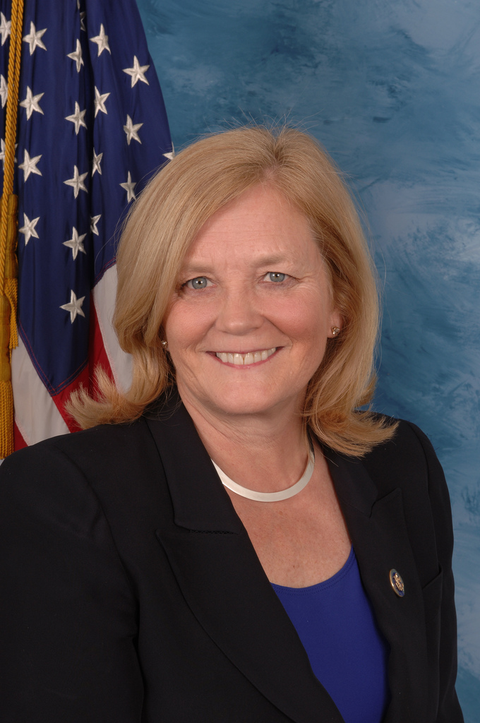 Chellie Pingree, member of the United States House of Representatives.